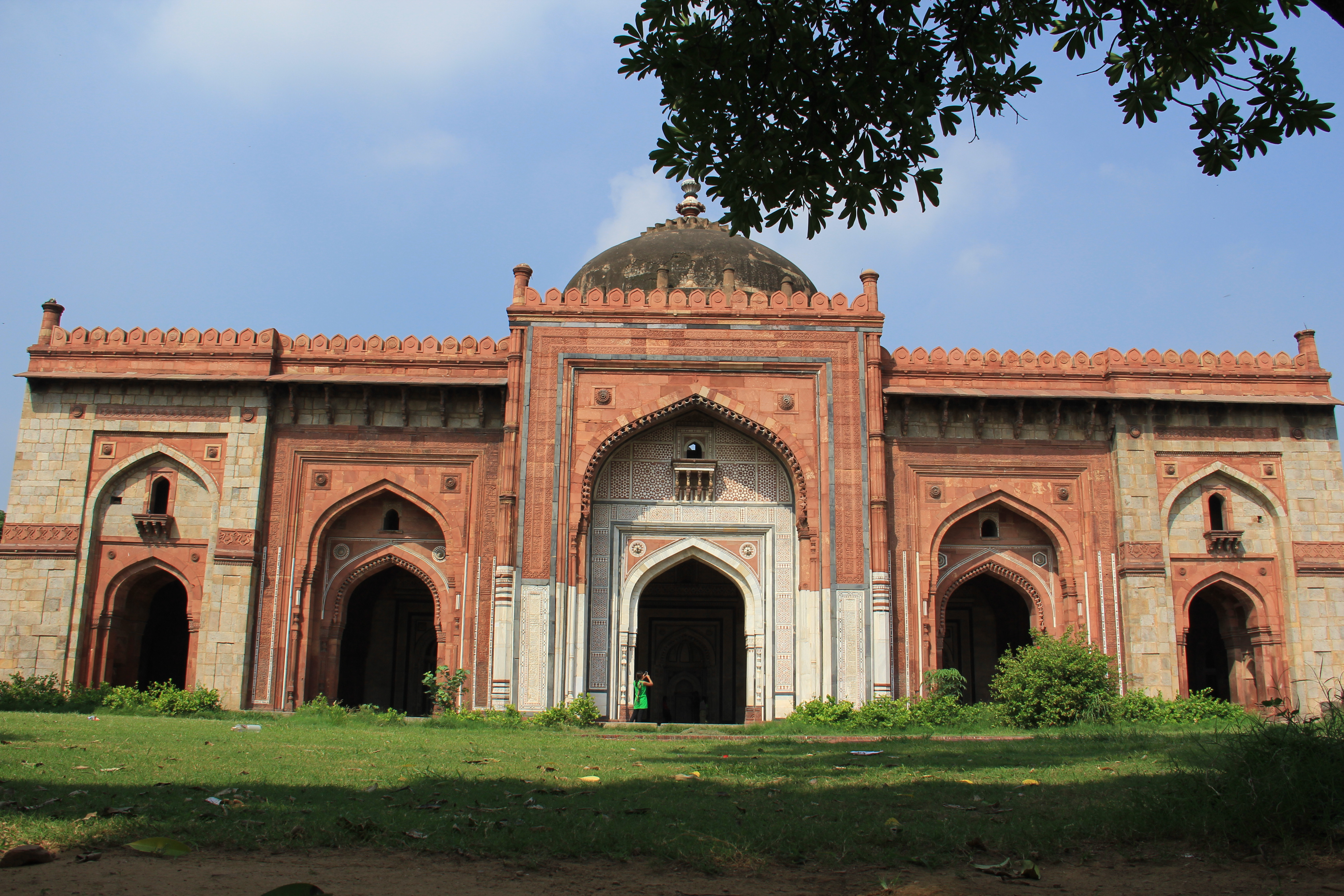 The Qila-i-Kuhna Mosque at Purana Qila, Delhi